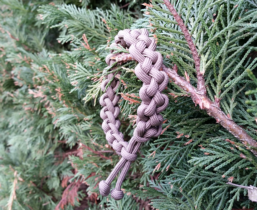 Survival bracelet with tying "Zipper" and "Mad Max" finish